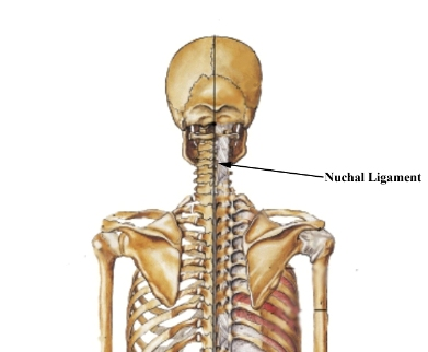 A picture of the nuchal ligament.